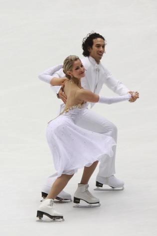 2009 Cup of China - Tanith Belbin and Benjamin Agosto